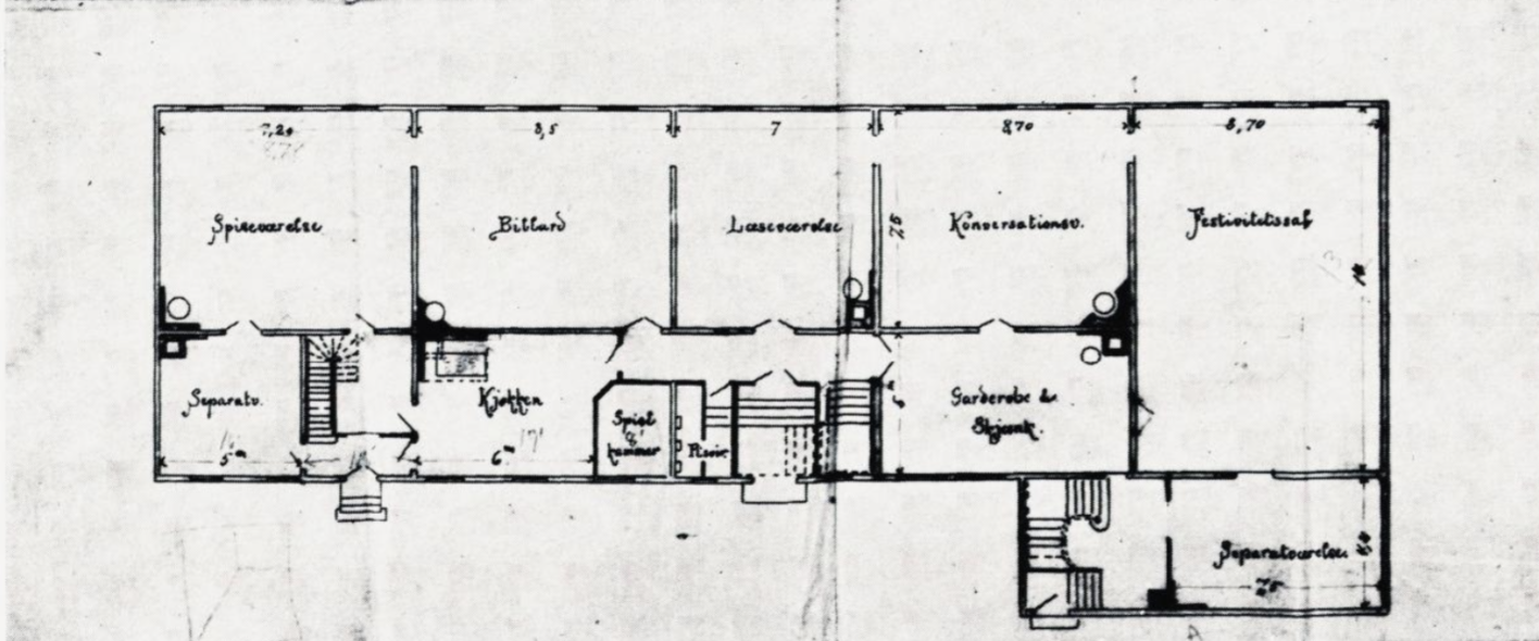 Measuring drawing (plans) of Harmonien, Trondheim, erected 1769–1773.